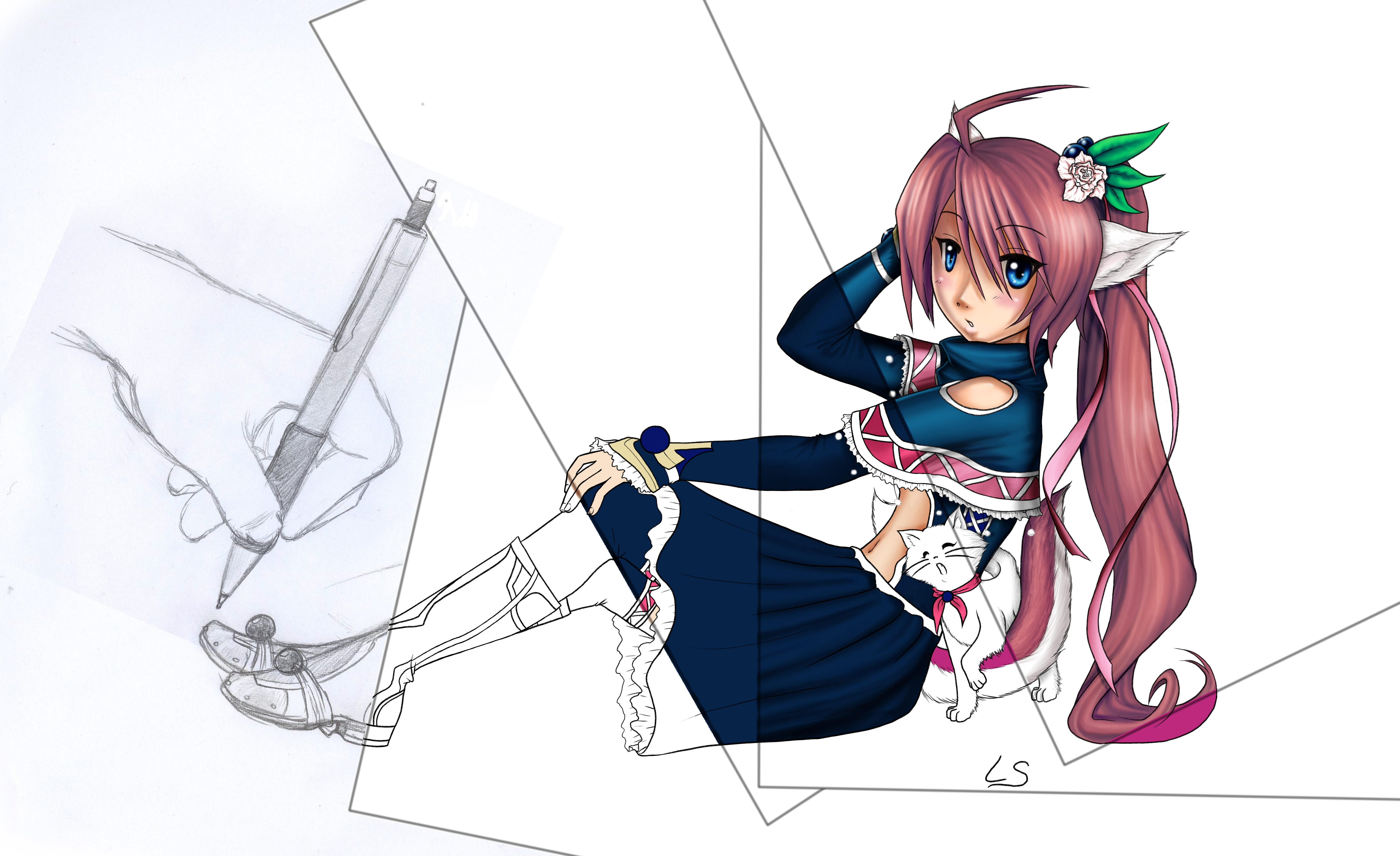 Representation of the different phases of a drawing, here in the style of anime and manga.